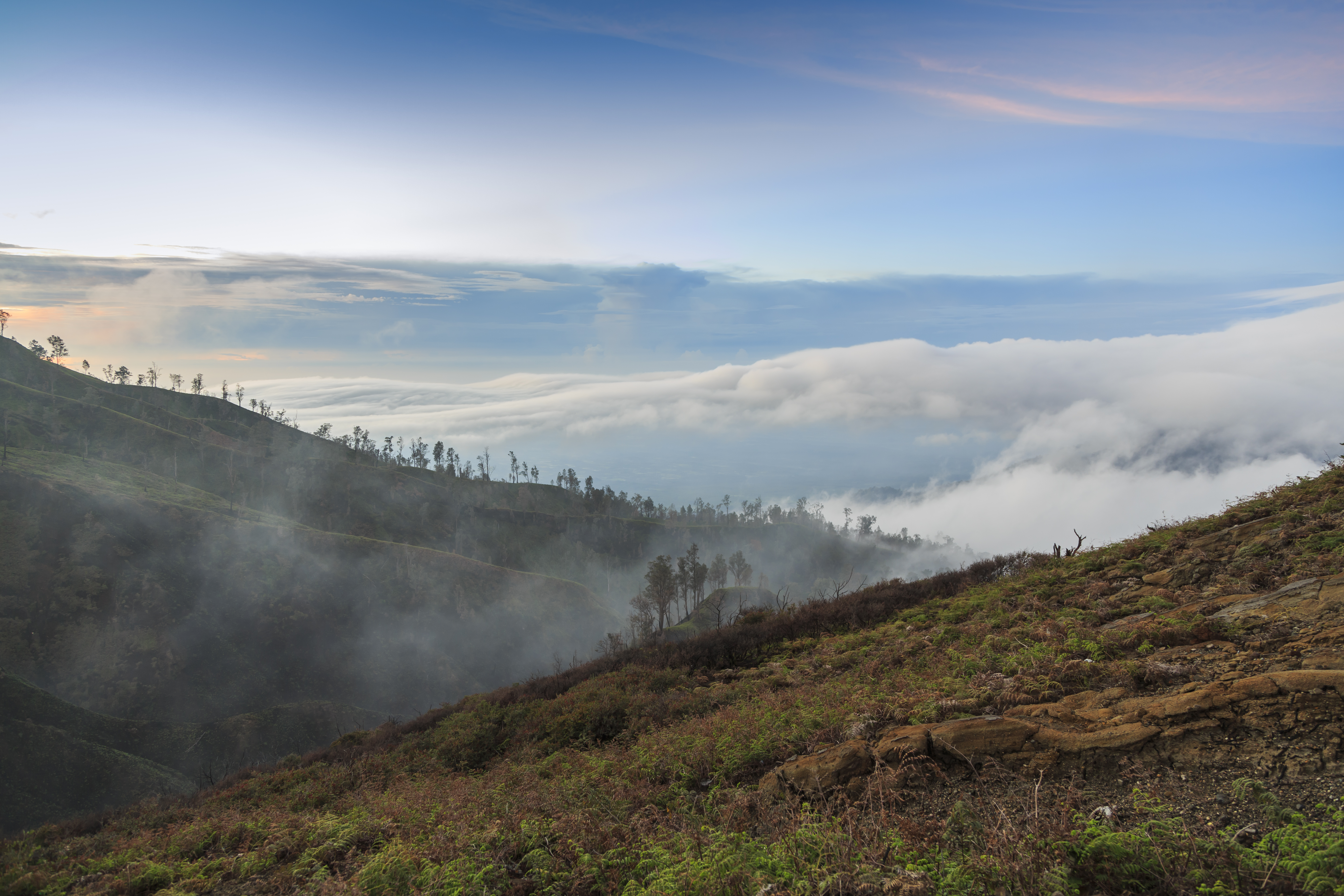 Ijen Volcano, Banyuwangi Regency, East Java, Indonesia: Morning fog at the slopes of Ijen Volcano.